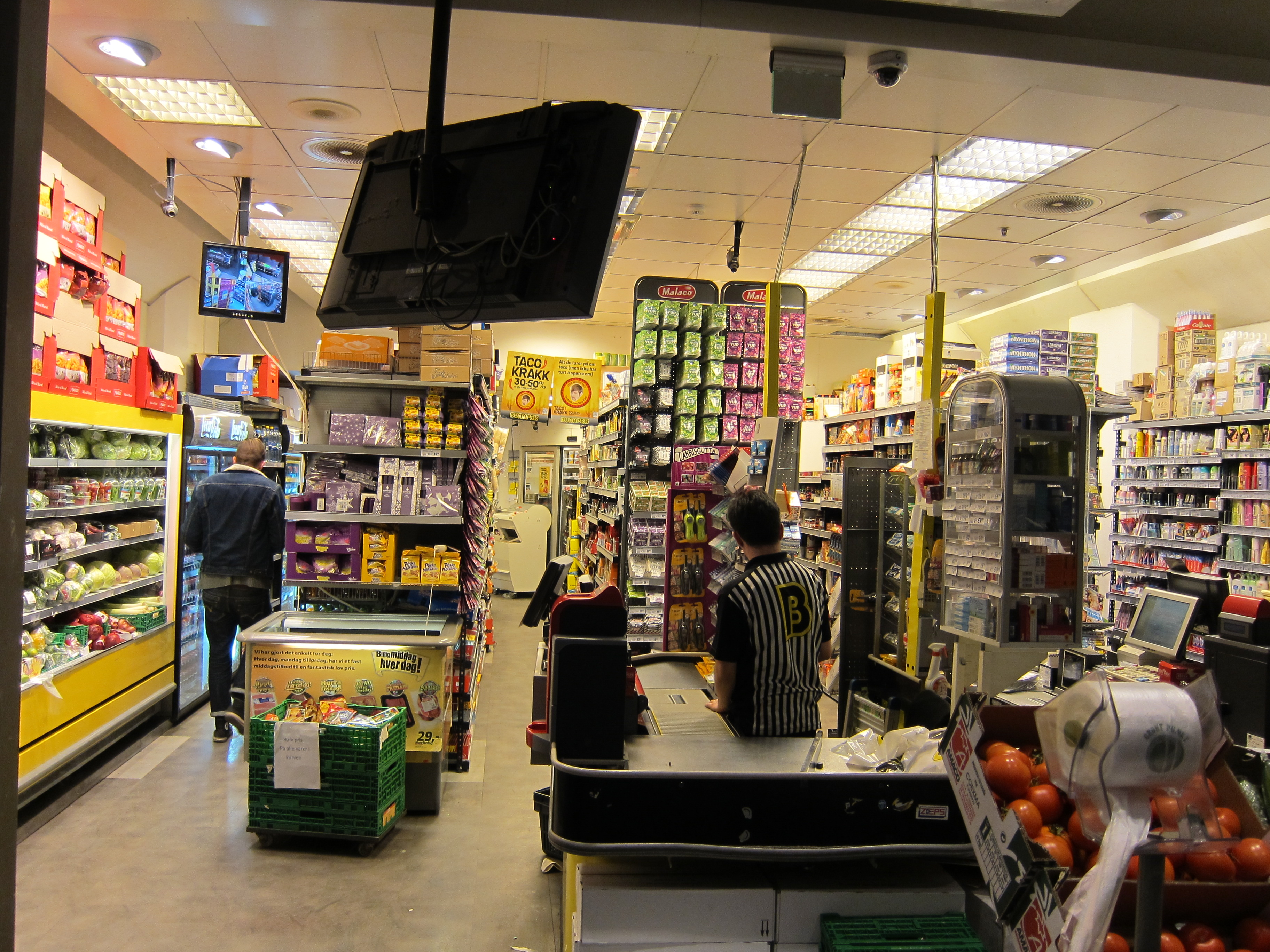 Shop in Oslo, Norway, in the "Bunnpris" chain, at the main railway station Oslo S, the shop is within the 100 square meters also known as "Brustadbua"